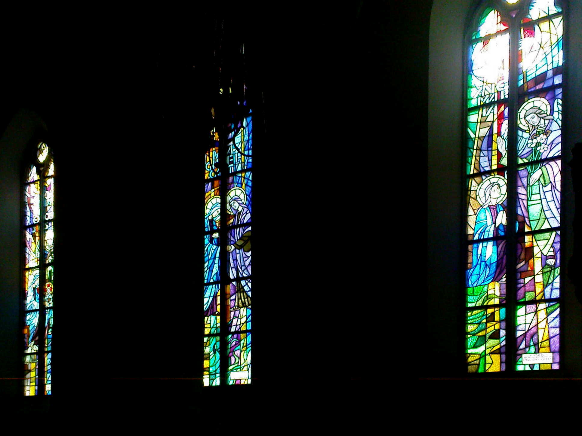 Parish Church of St. Martin the Bishop in Łużna